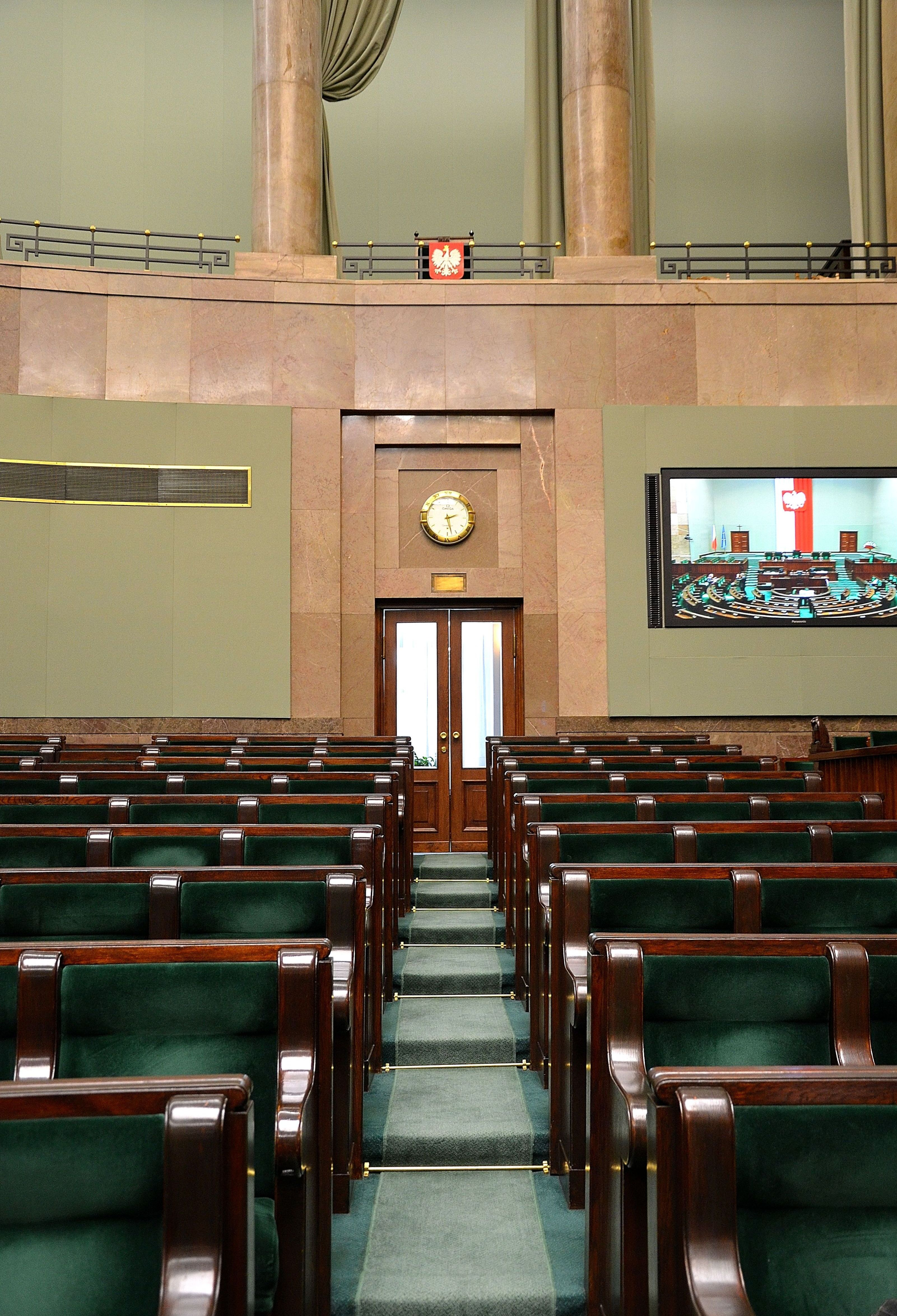 Box of the President of the Republic of Poland in the public gallery in the Sejm Plenary Hall